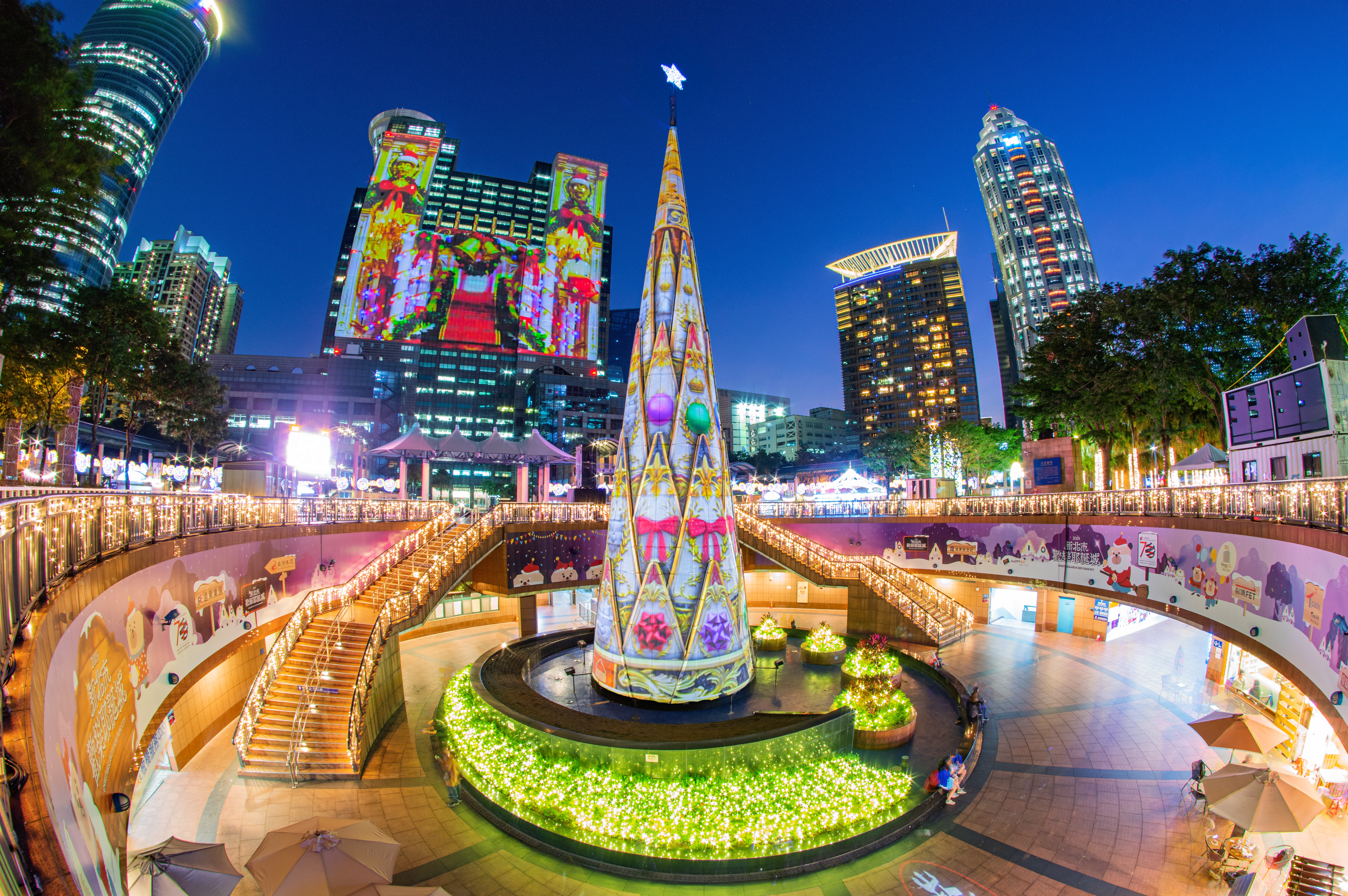 Night scene of the Christmasland in New Taipei City 2019.